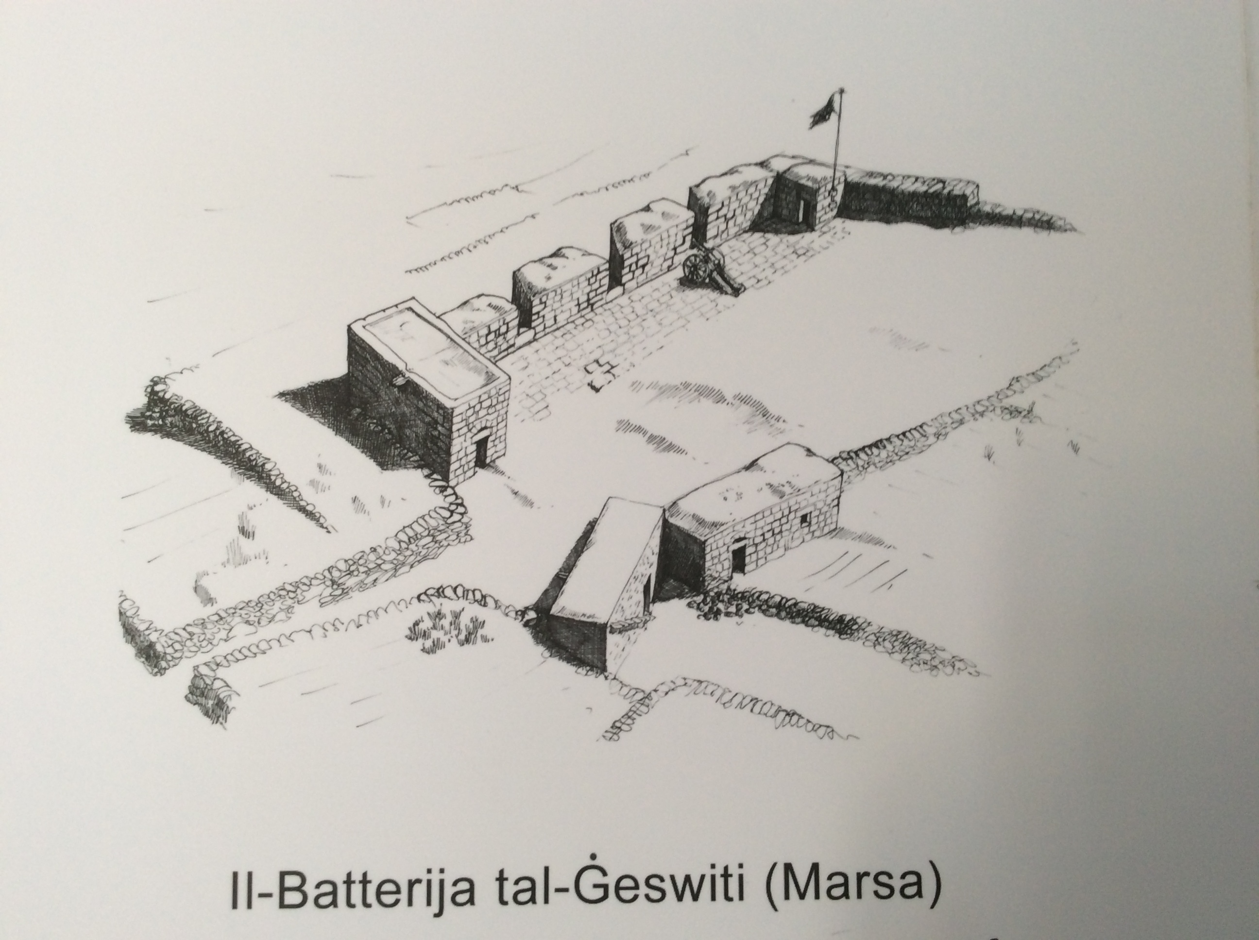 Valletta